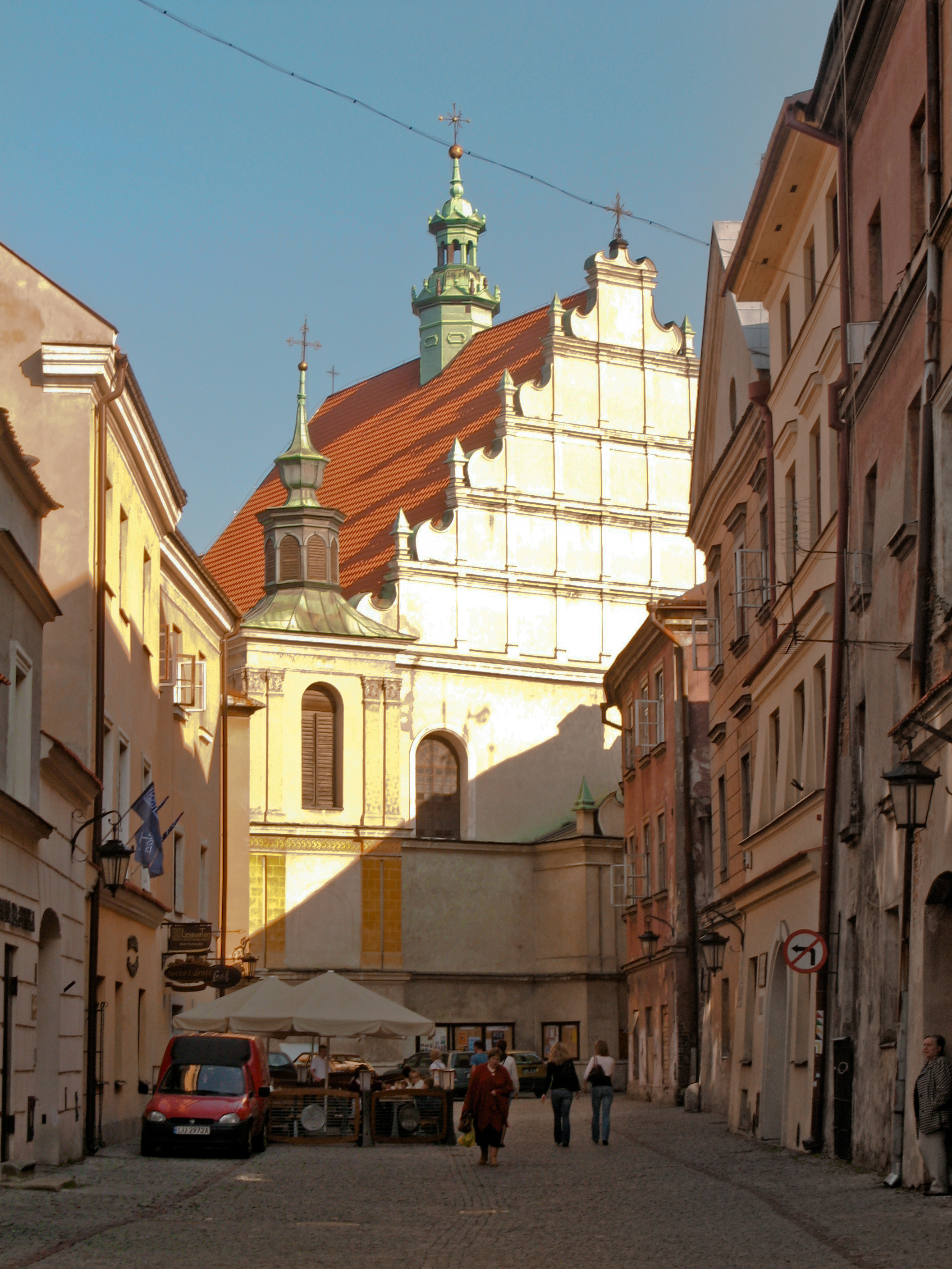 Dominican Church in Lublin as seen from Old Town Market.